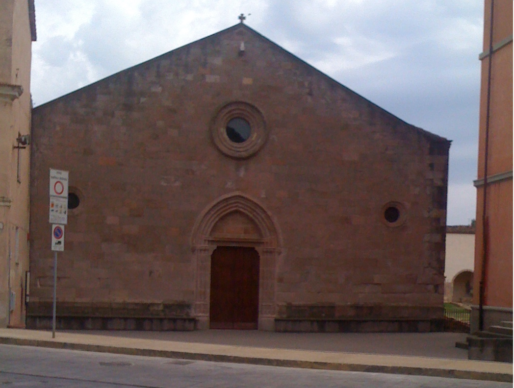 Church of San Francesco - Iglesias, Italy-Sardinia